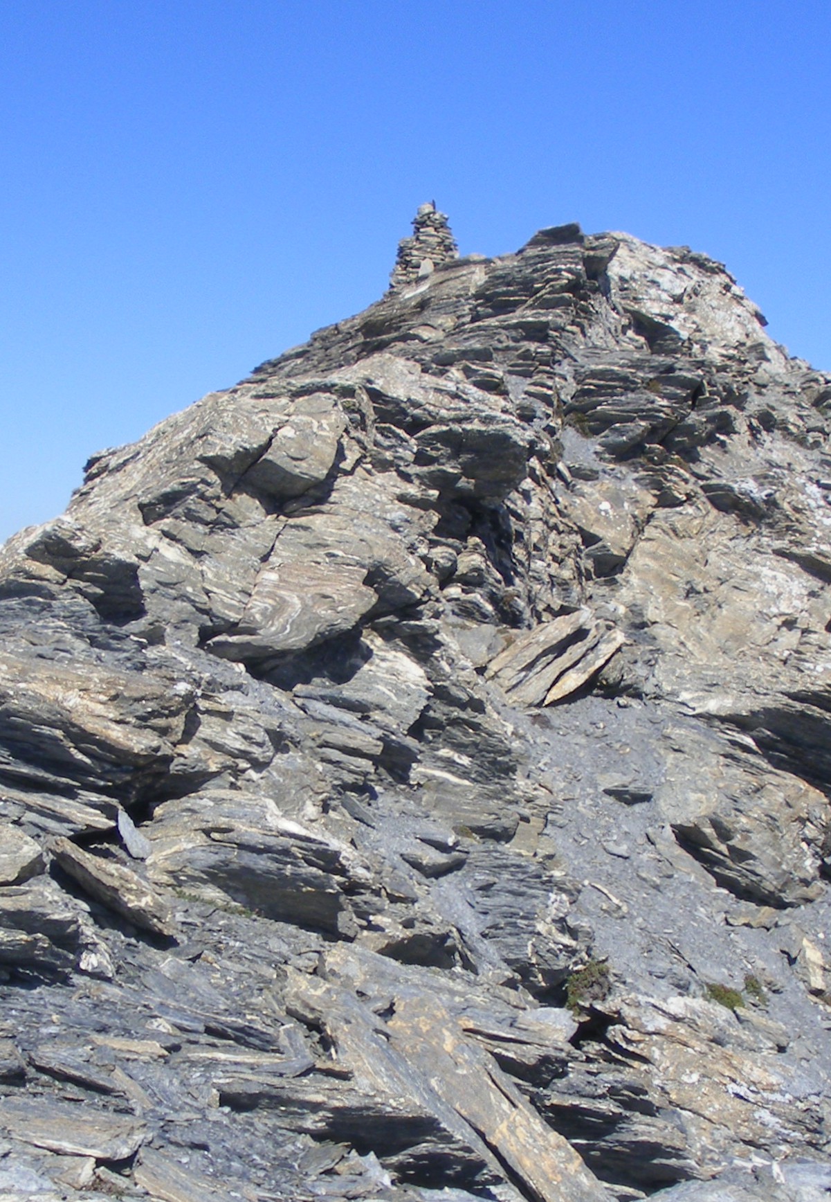 Signal du Petit Mont Cenis (Cottian Alps, France) - summit cairn